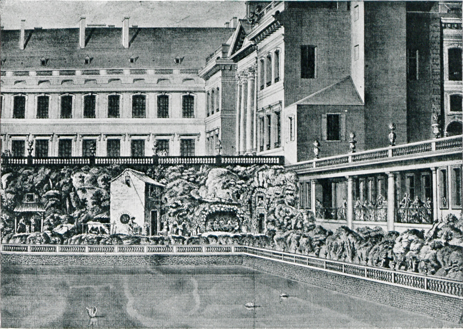 Garden craft in Europe. London 1913. Page 155. Lunéville